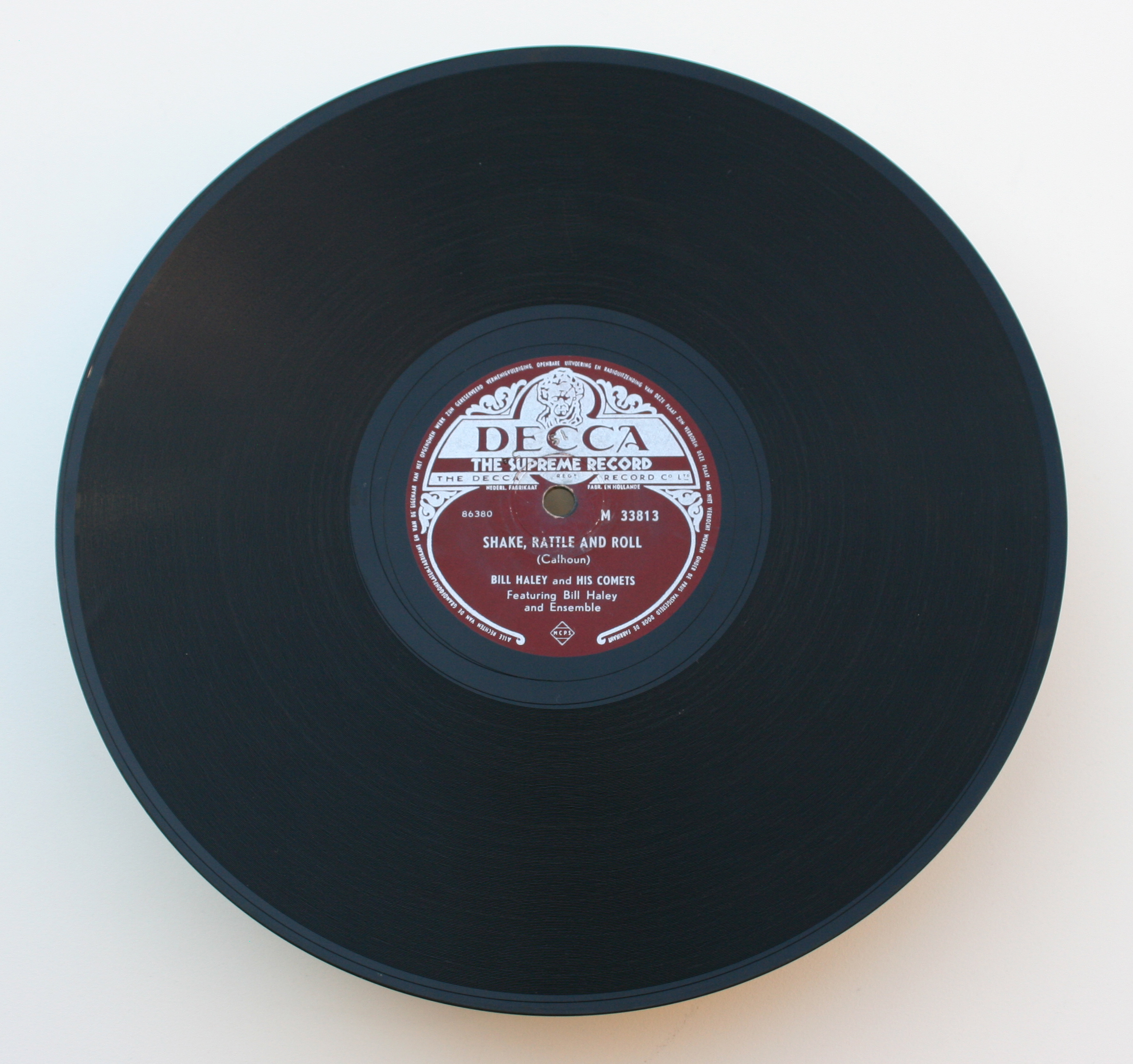 78 RPM Single, "Shake, Rattle And Roll" By Bill Haley and his Comets